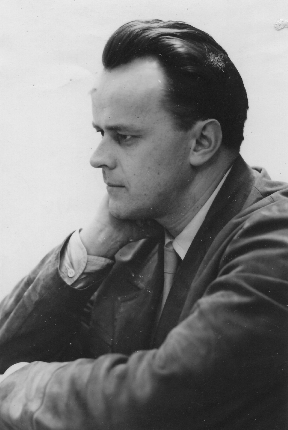 Luděk Pachman (11.05.1924-06.03.2003) Chess player and composer